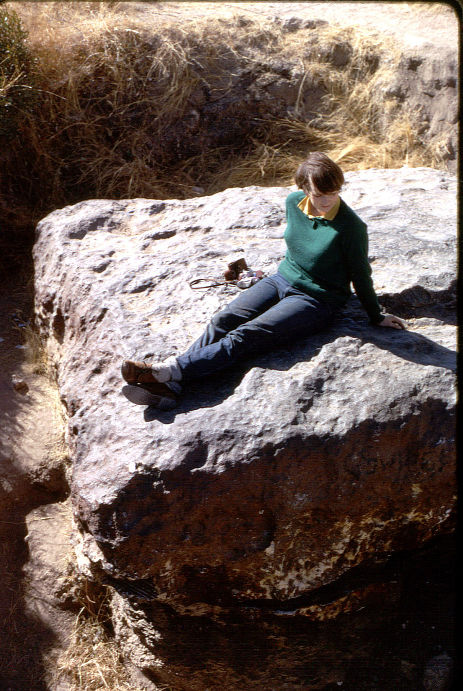 Own image of Hoba Meteorite, Namibia. 26 July 1967. Person on meteorite is Laurie Venter.